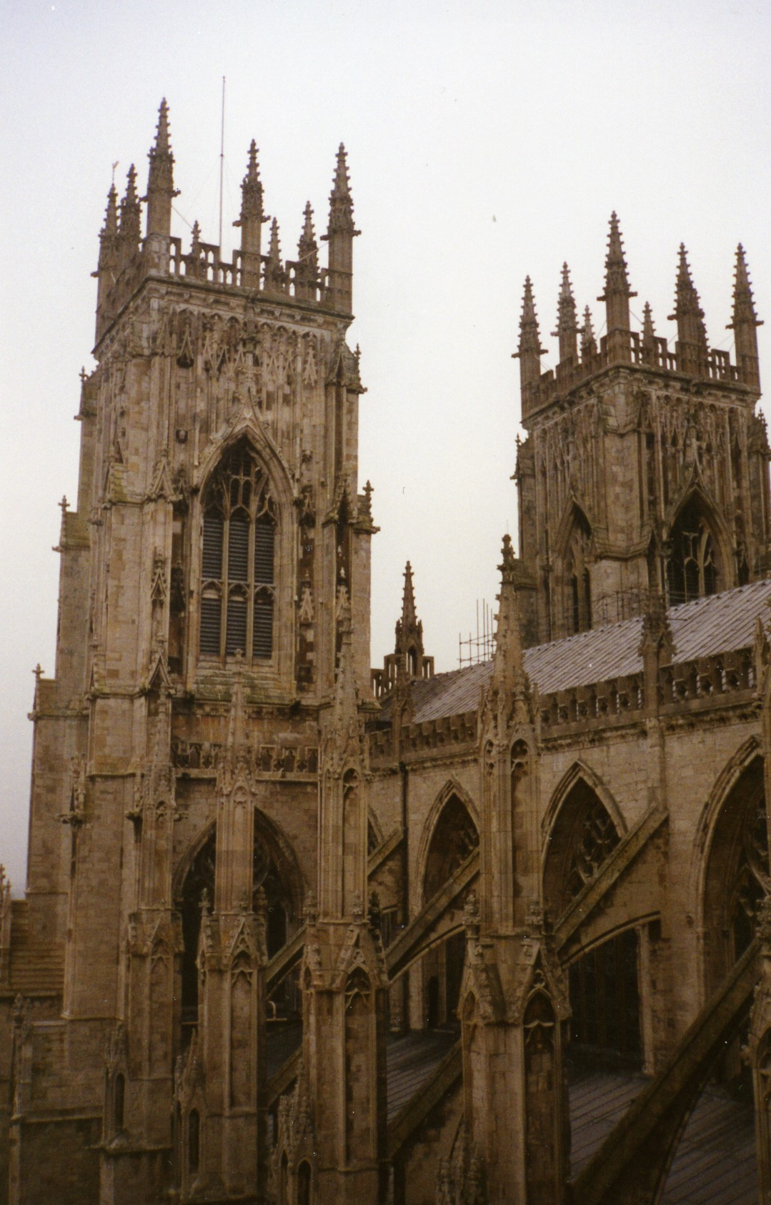 Own photo Frans van Nes York Minster: western towers